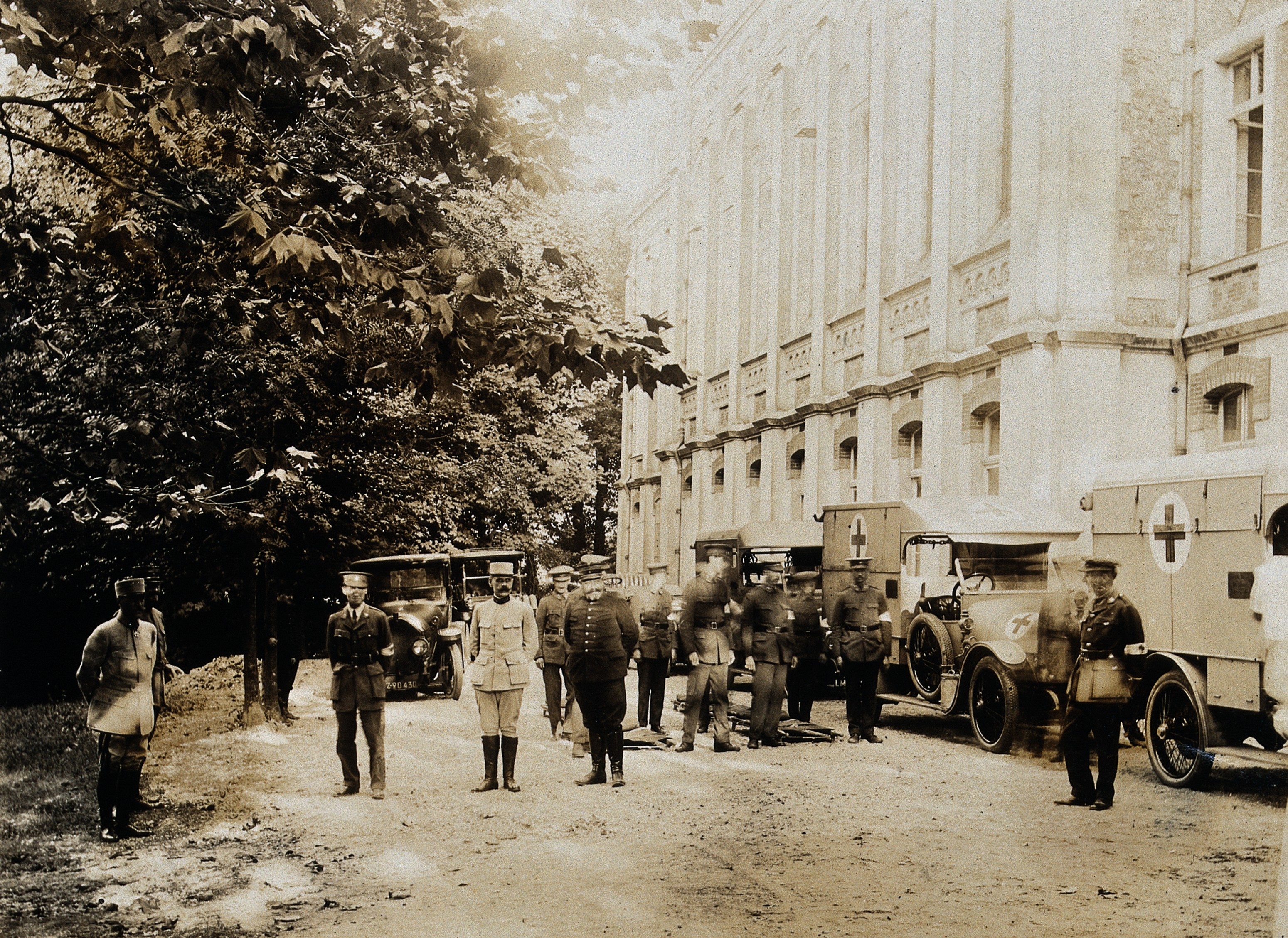 Military Hospital V.R. 76, Ris-Orangis, France: soldiers and ambulances. Photograph, 1916. Iconographic Collections Keywords: Military Hospital V.R.76 (Ris-Orangis, France)